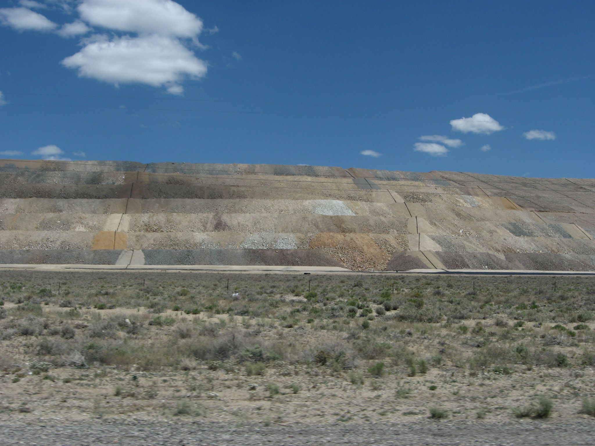 Round Mountain, Nevada gold mine, leach dumps, 2008